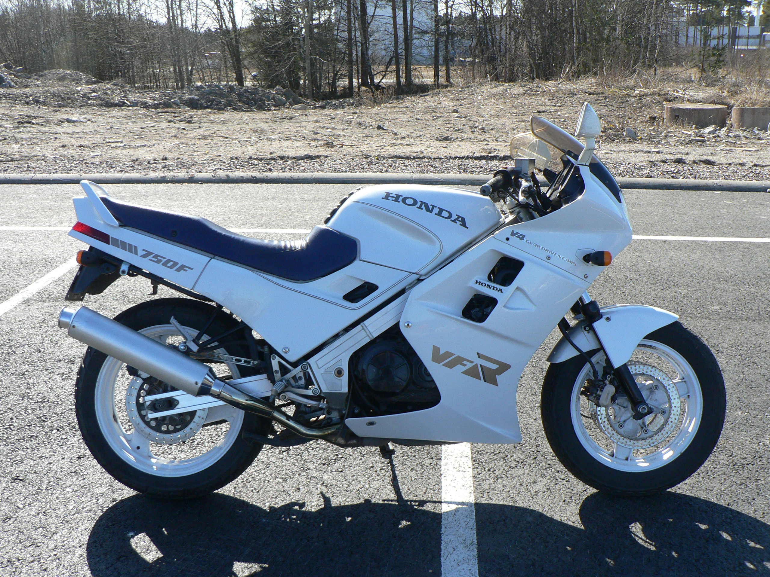 Year 1987 Honda VFR750F RC24 motorcycle. Aftermarket turning signals and pipes.